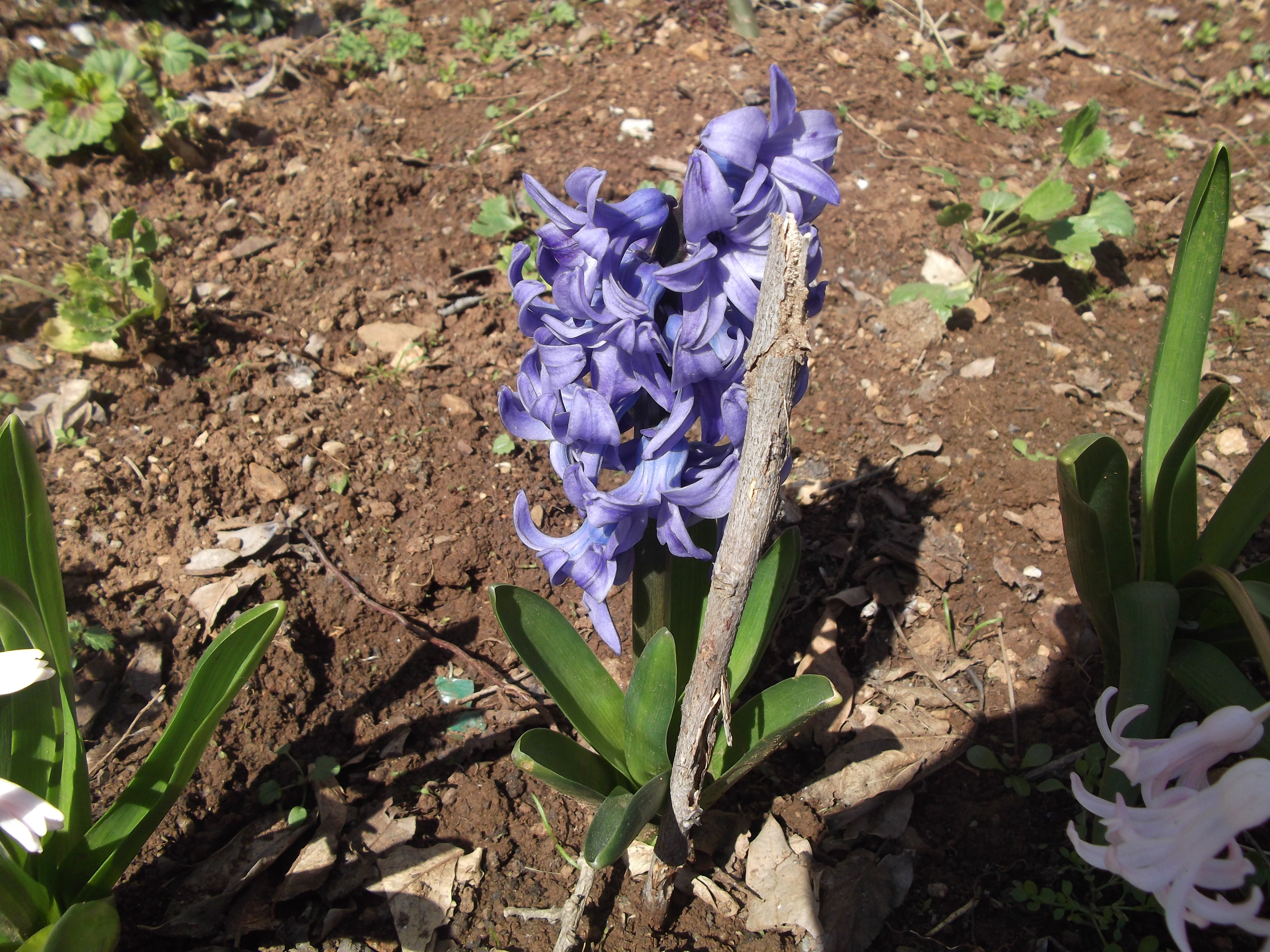 Hyacinth (plant)-Sümbül Çiçeği